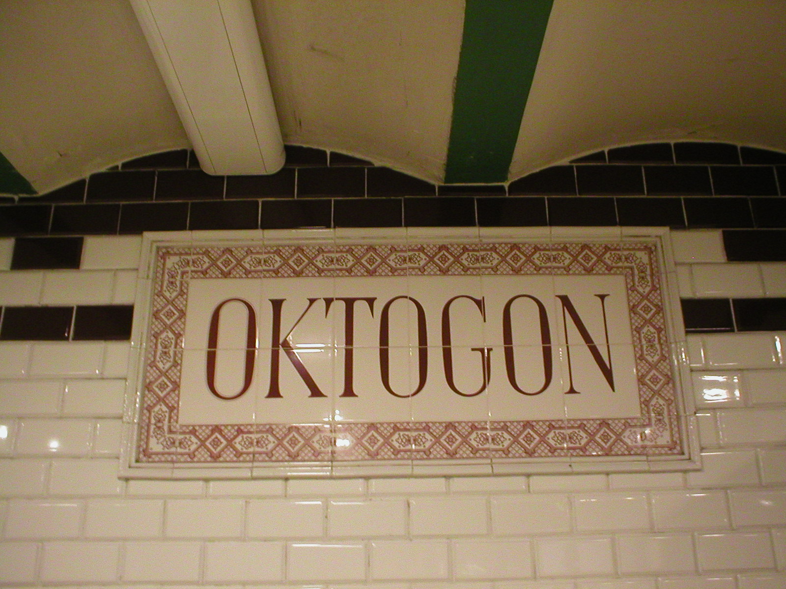 Sign of the Budapest Földalatti station "Oktogon"